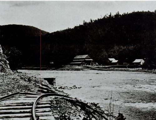 The Nolichucky River at Unaka Springs (Unicoi County), Tennessee, United States. A flood had just washed away a railroad bridge.